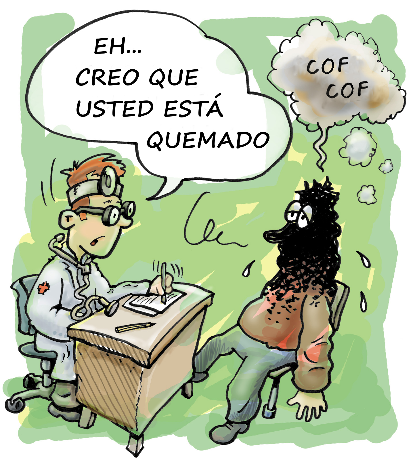 Translation into Spanish of a cartoon in Dutch, about occupational burnout. Original file already in commons and with public domain licence. Thanks to original author Welleman for releasing the original cartoon to the public domain here in wikimedia commons.